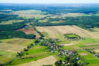 Bukowina, Poland